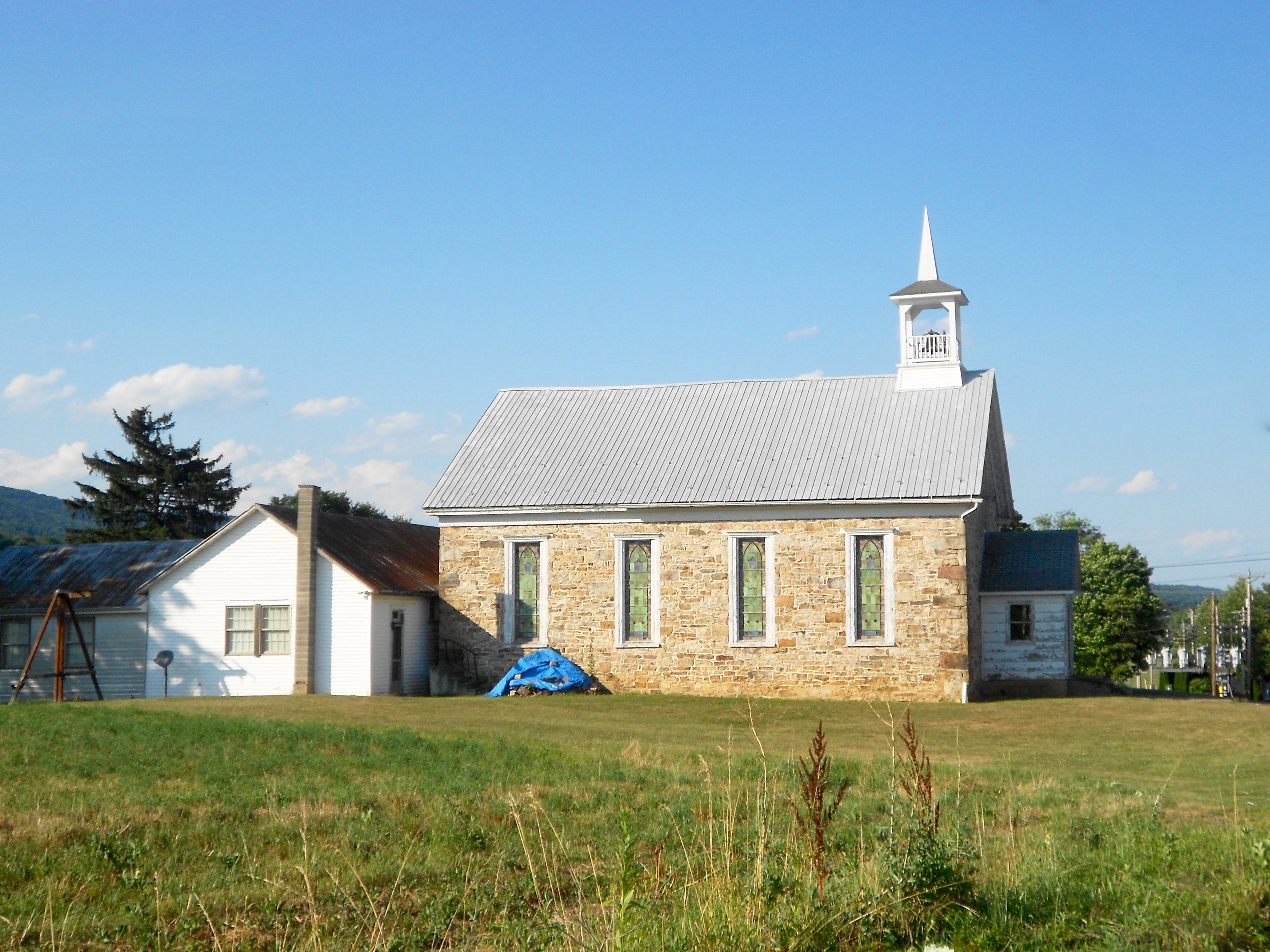 Wesley Chapel in Reeds Gap, Tuscaroroa Township, Juniata County, Pennsylvania. Presumably Methodist